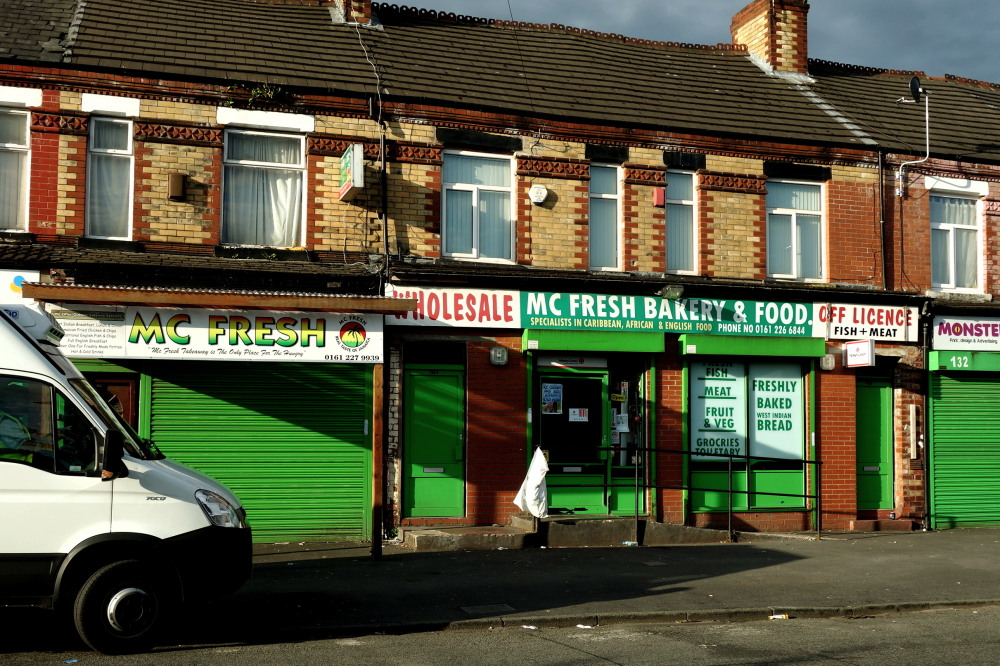 MC Fresh on Claremont Road in Moss Side, Manchester